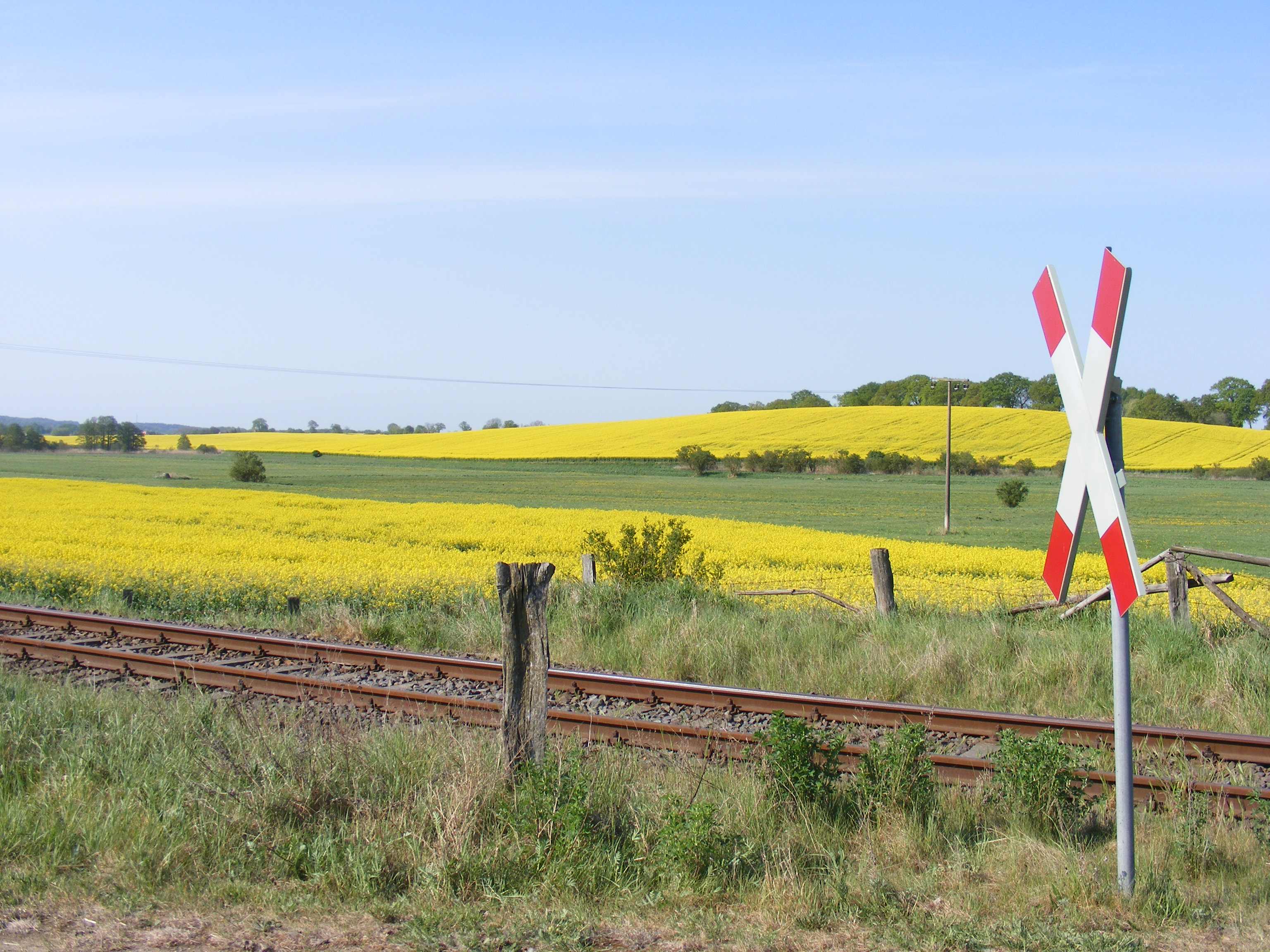 Wismar-Karower Eisenbahn near Blankenberg